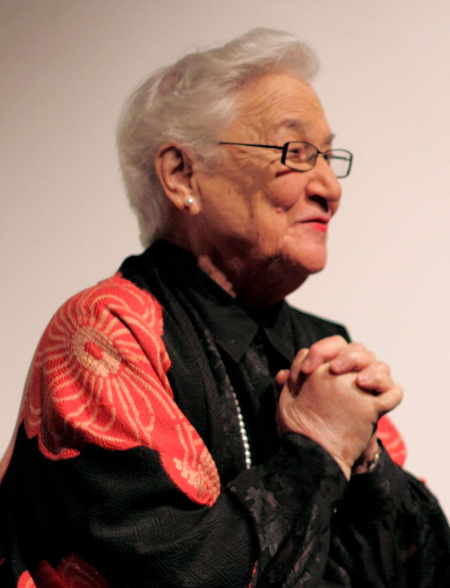 Beate Sirota Gordon following a 2011 screening of "The Sirota Family and the 20th Century" (シロタ家の20世紀 / Shirota-ke no nijyu seiki / Dir. Tomoko Fujiwara / 2008) at the Japan Society in Manhattan, New York City. Canon EOS 7D DSLR + Canon EF 50mm